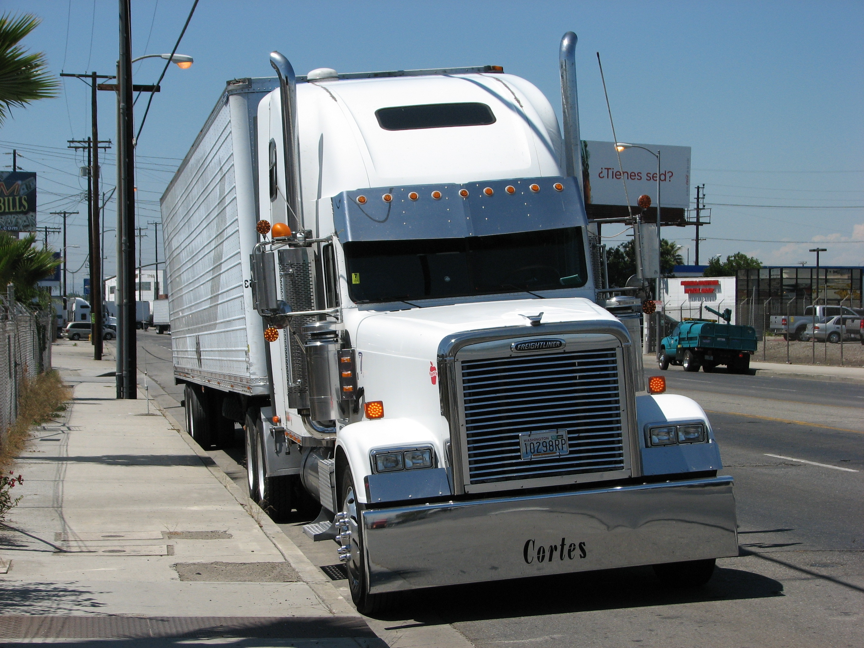 Freightliner truck at Olympic Bouleward, Los Angeles